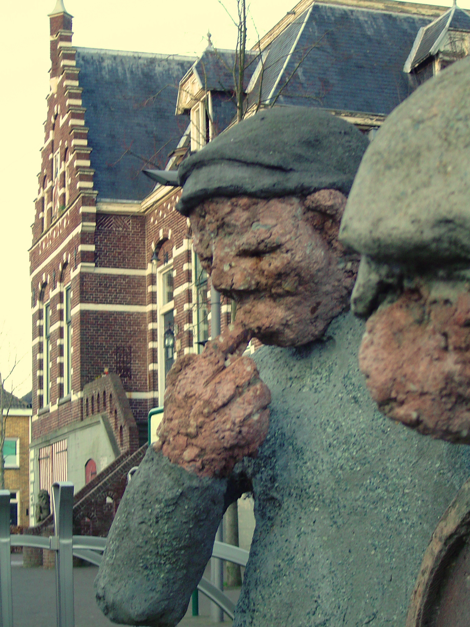 Sculpture at Zaamslag de Stropielekkers